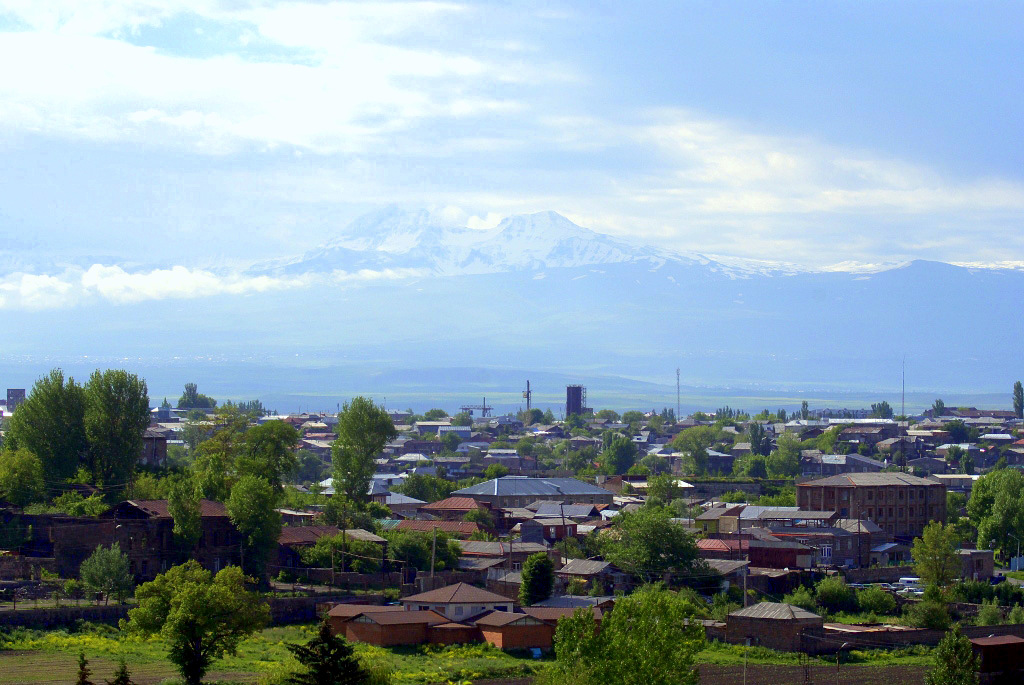 View over the Gyumri rooftops to the Aragat mountain